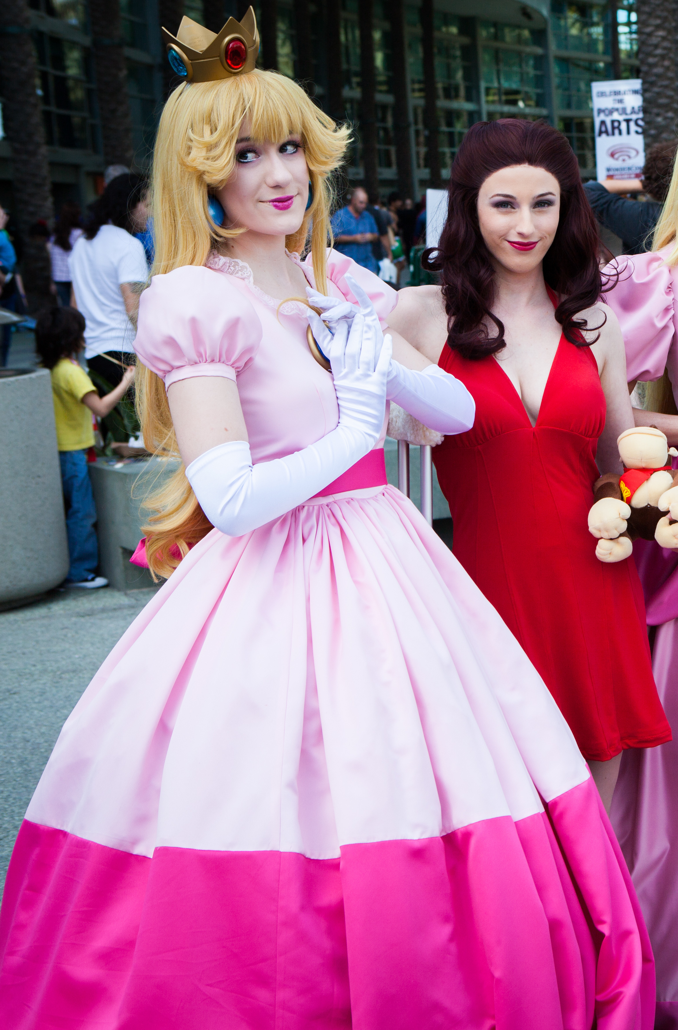 Wondercon 2015-7228